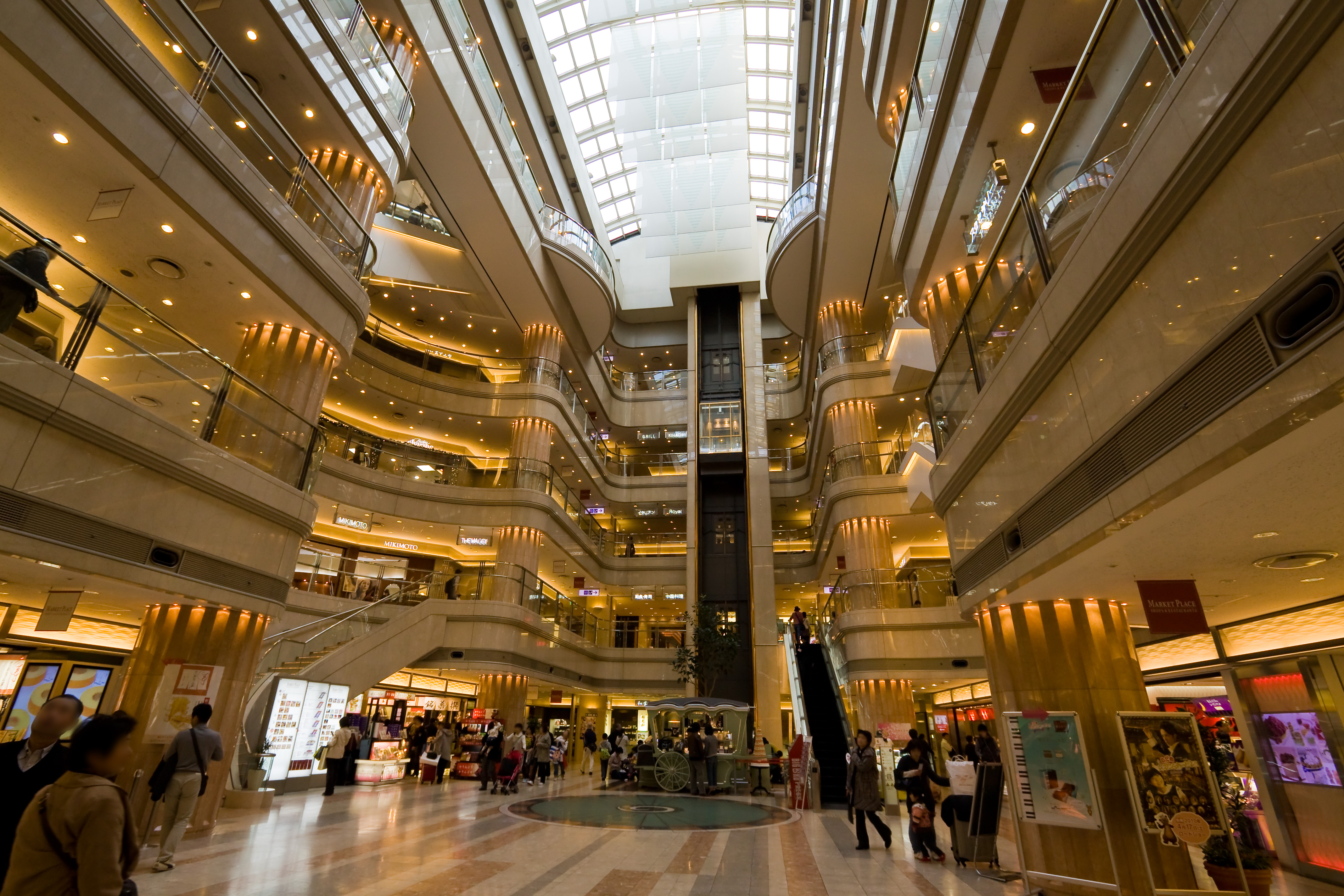 Haneda Airport Terminal1 MarketPlace